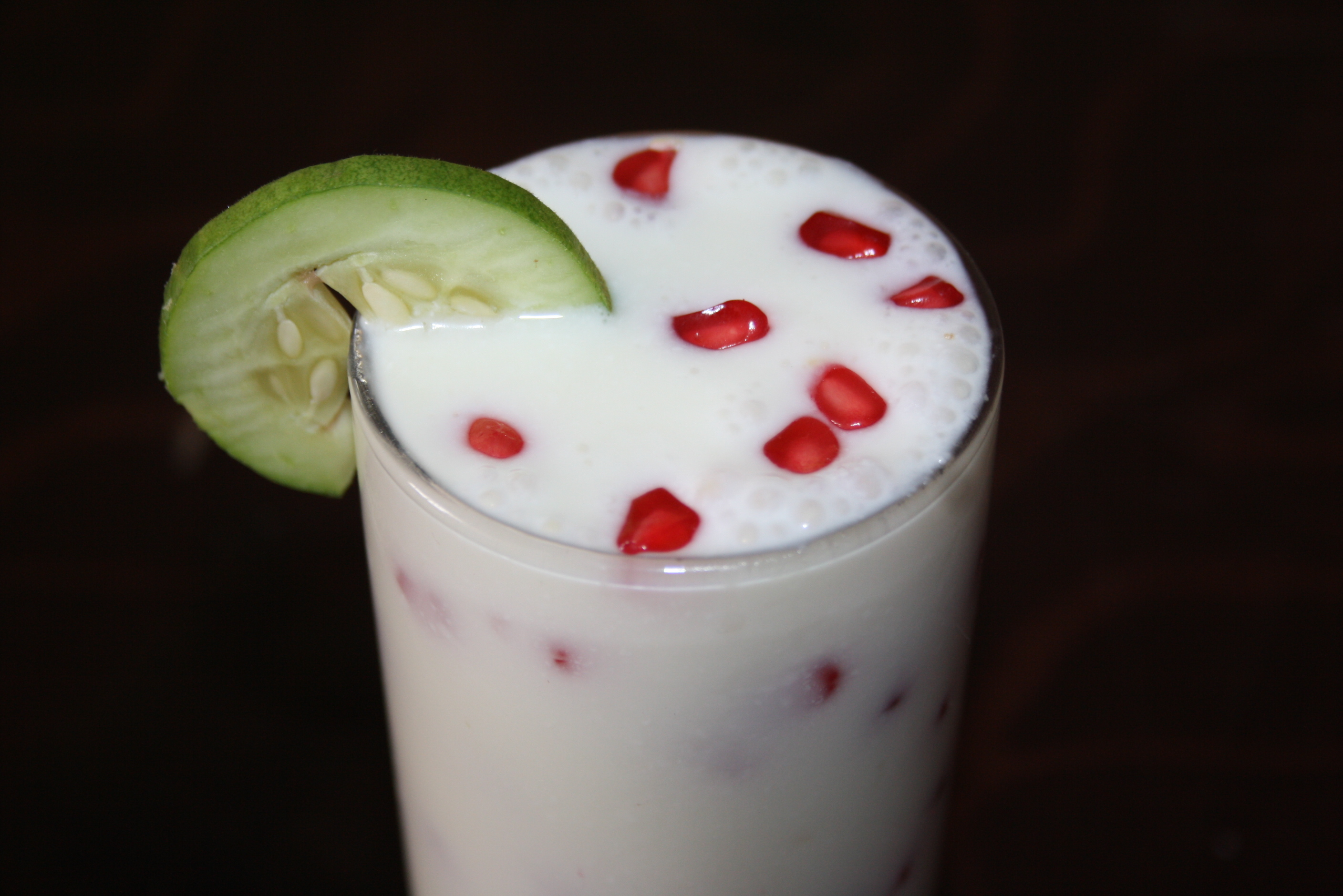 Sweet Lassi flavoured with sugar and pomergnate